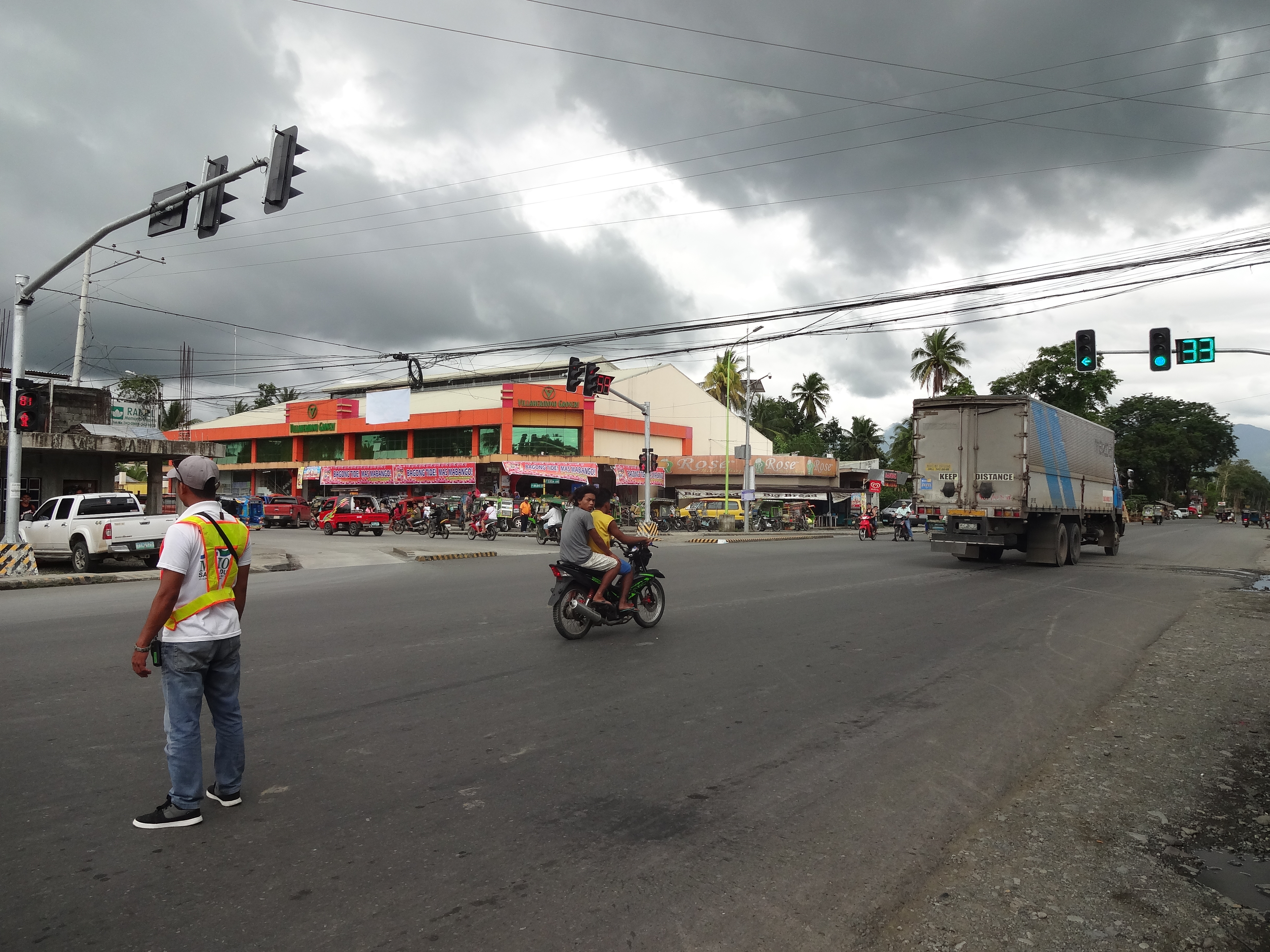 This is my own work. The Cabadbaran City Downtown with the traffic light.